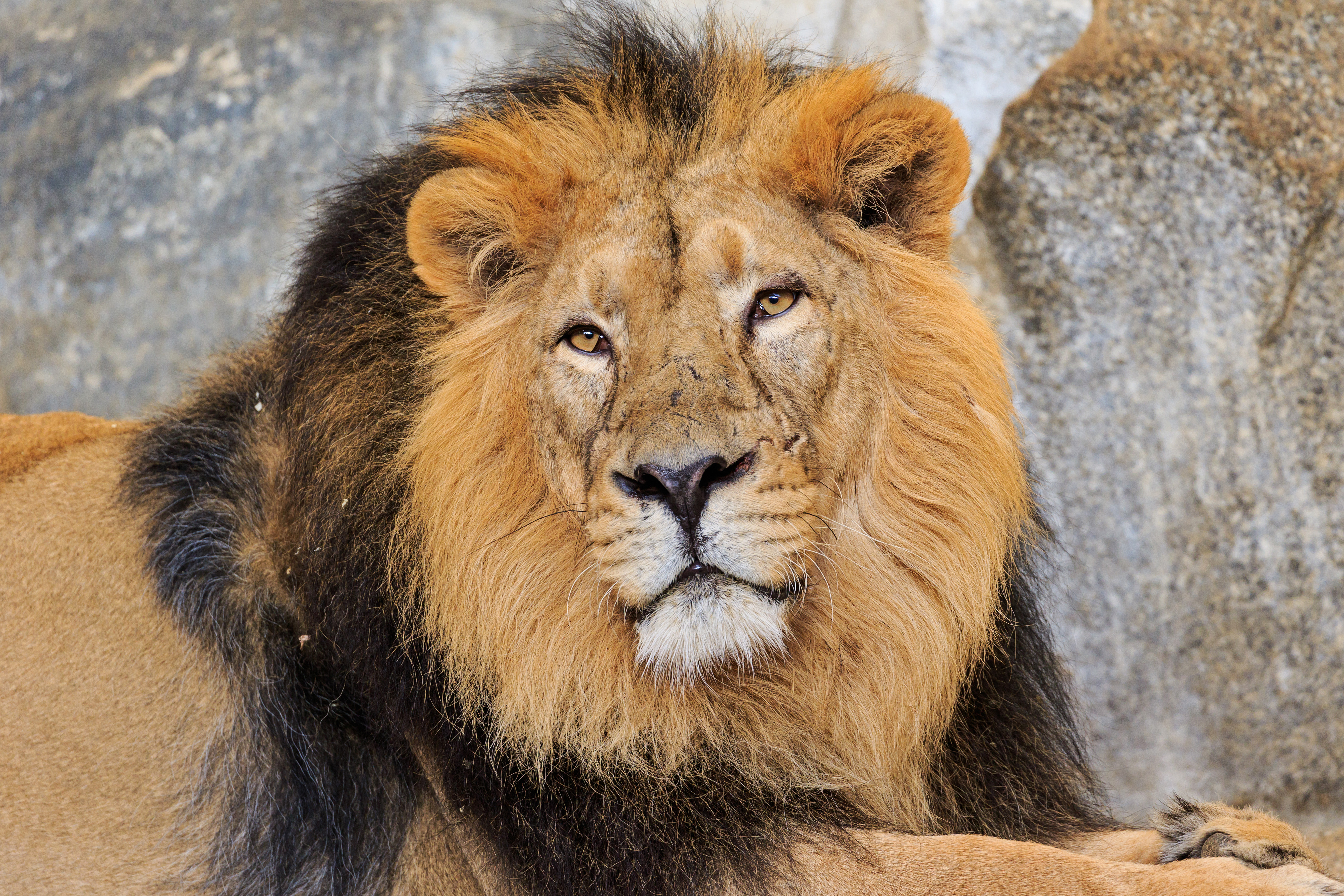 An Indian lion in the Berlin Tierpark (Friedrichsfelde zoo)